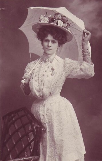 The English music hall actress Marie Kendall